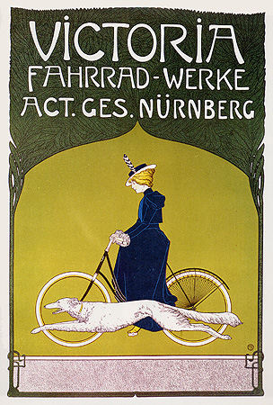 Advertising poster Victoria Fahrradwerke (bicycles)